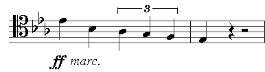 Bruckner Rhythm in his Fourth Symphony in E-flat Major.